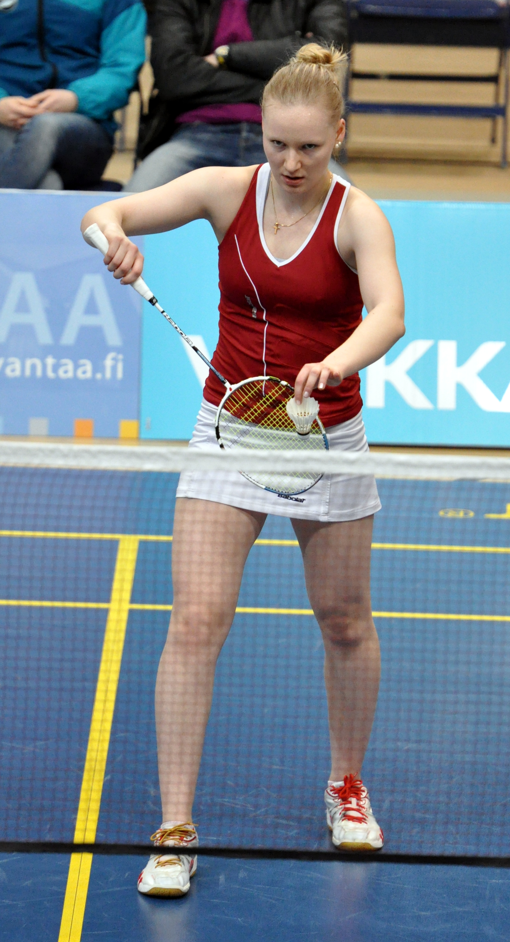 Sonja Pekkola is a Finnish female badminton player